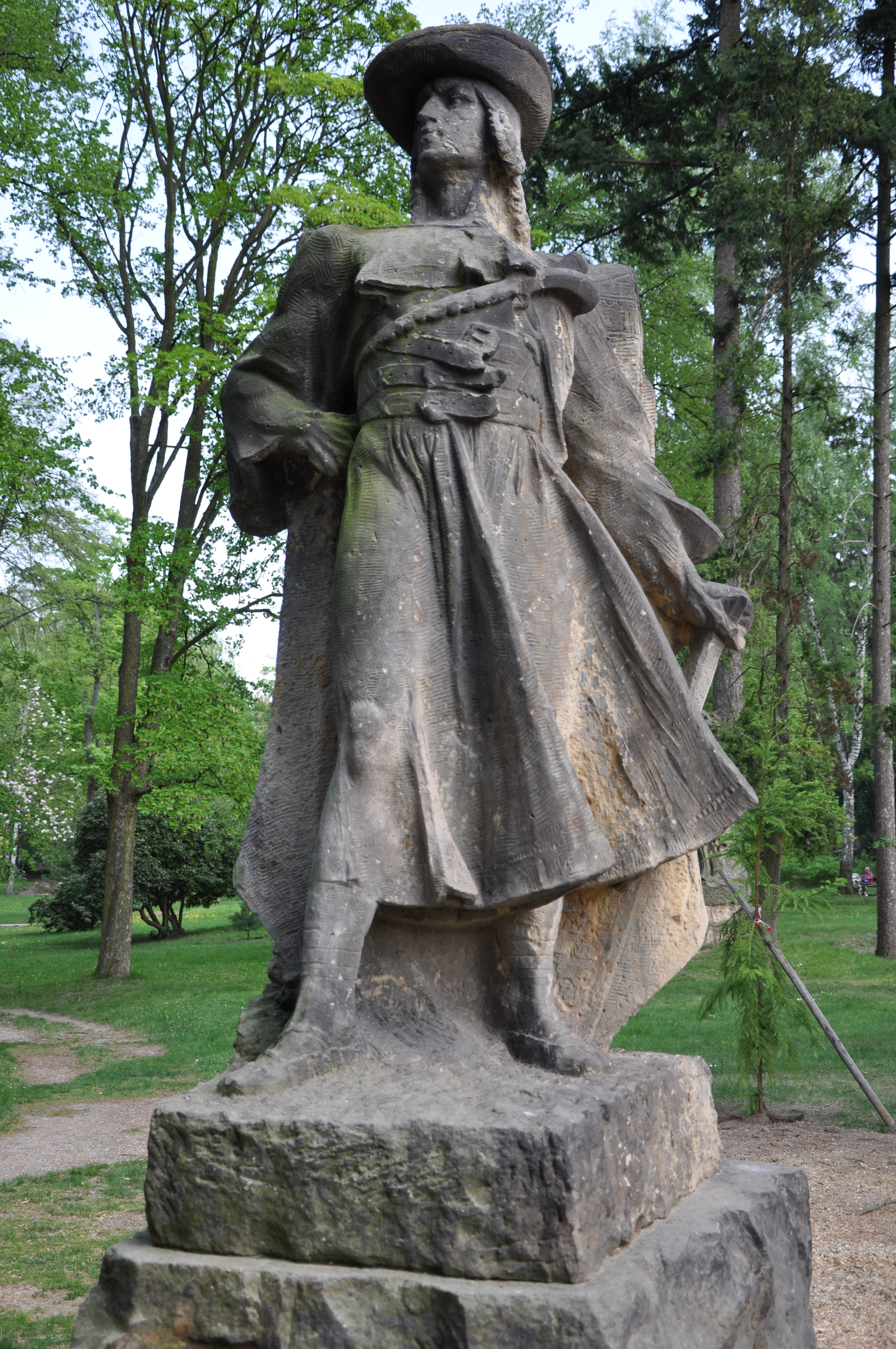 Juraj Jánošík (1688–1713), a Slovak Carpathian Highwaymen – a statue in the Smetana Park in Hořice, Jičín District, the Czech Republic. Sculptor: Franta Úprka (1868–1929).